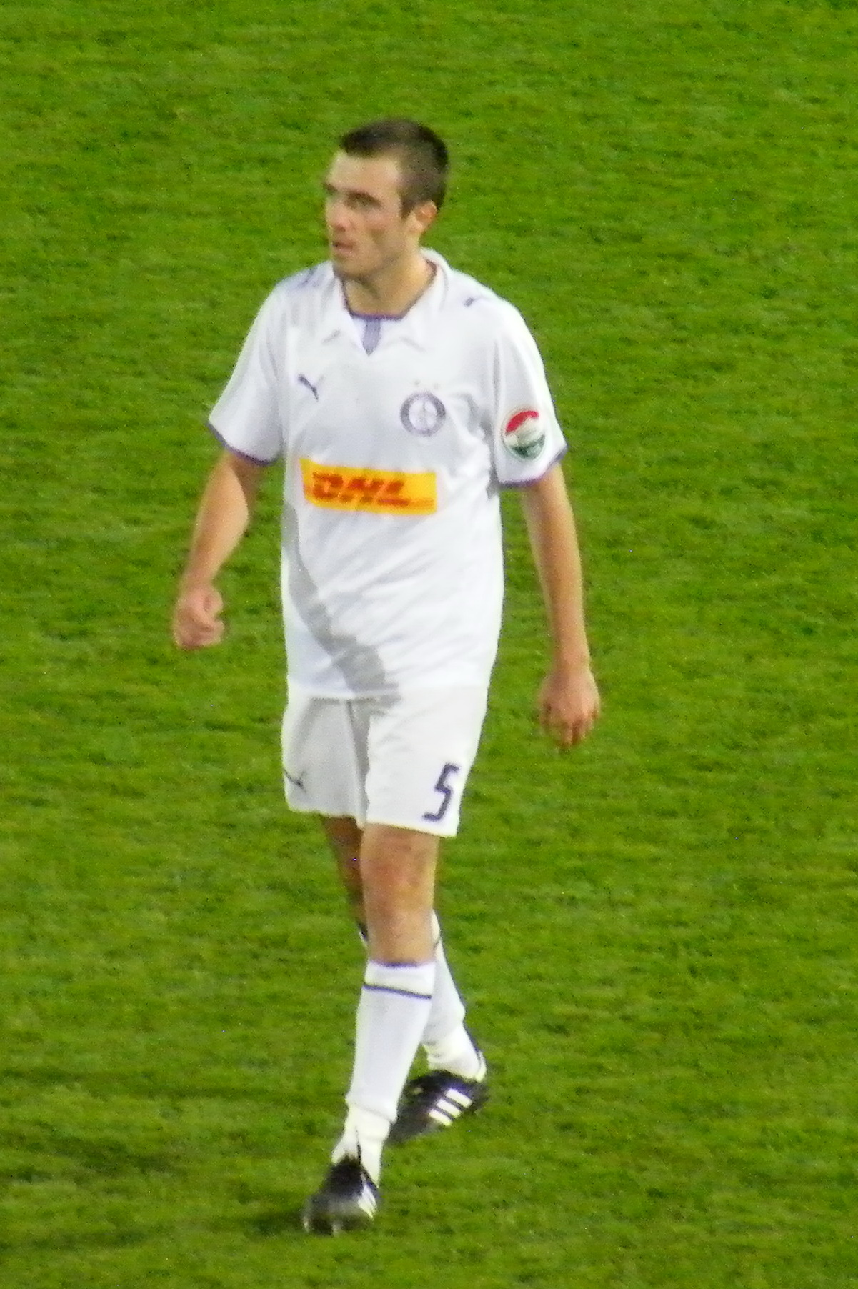 György Sándor Hungarian association football player.